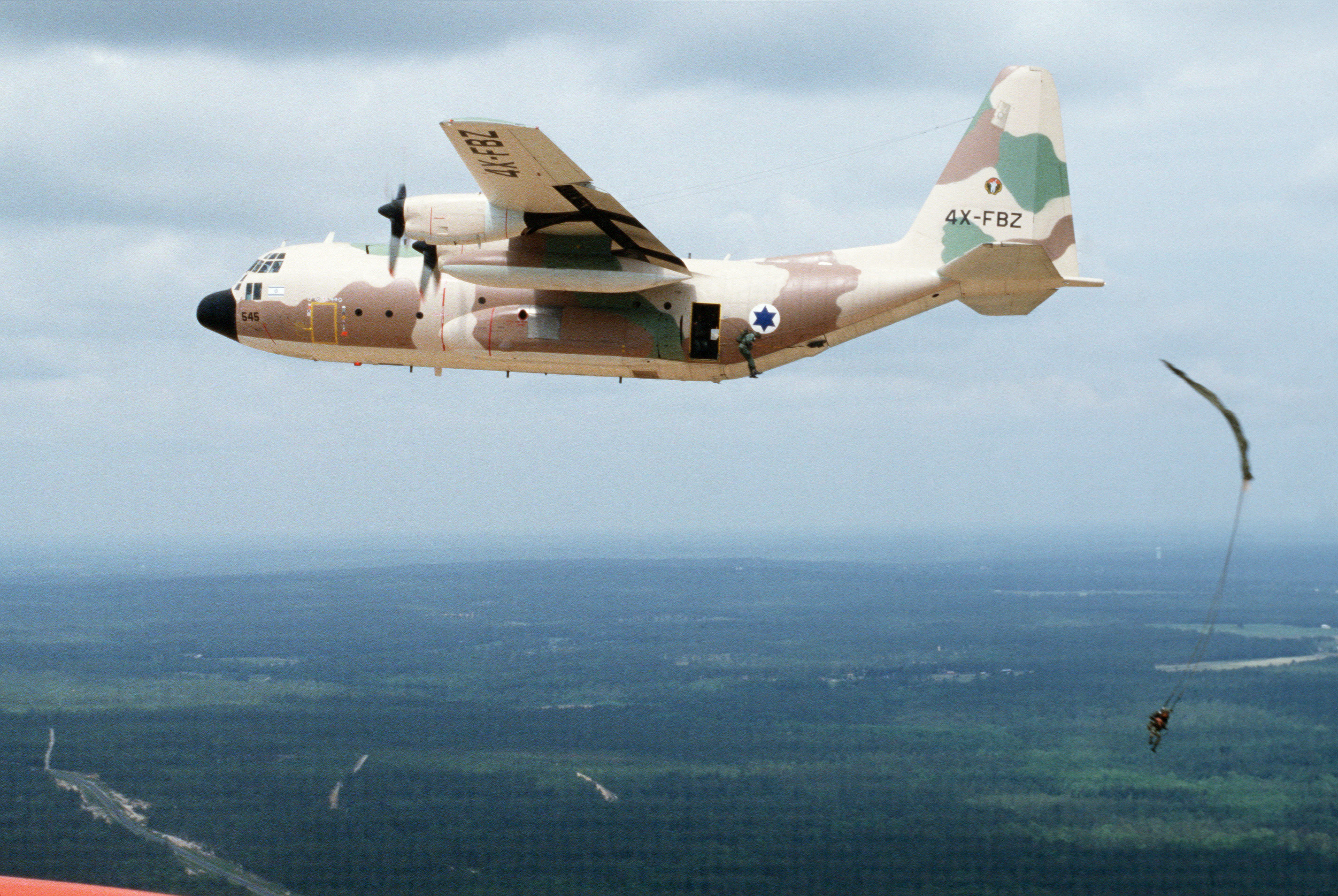 U.S. Army members of the 82nd Airborne Division parachuting from an Israeli Lockheed KC-130H Hercules (s/n 545/4X-FBZ, cn 382-4664) during a personnel drop for the ninth annual international airlift competition "Airlift Rodeo '87" on 1 May 1987.